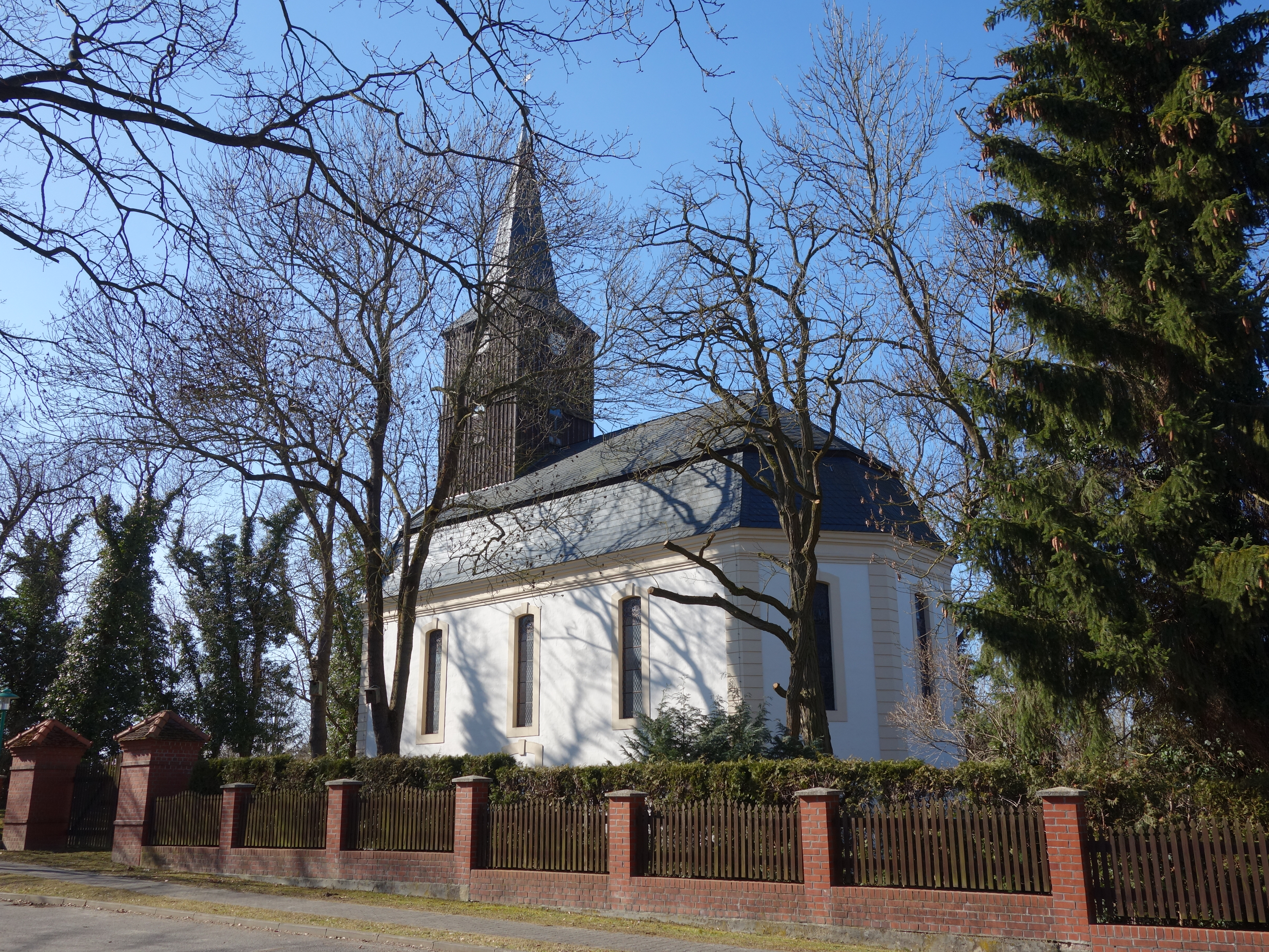 South-eastern view of the church in Schenkenberg , Schenkenberg municipality, Uckermark district, Brandenburg state, Germany